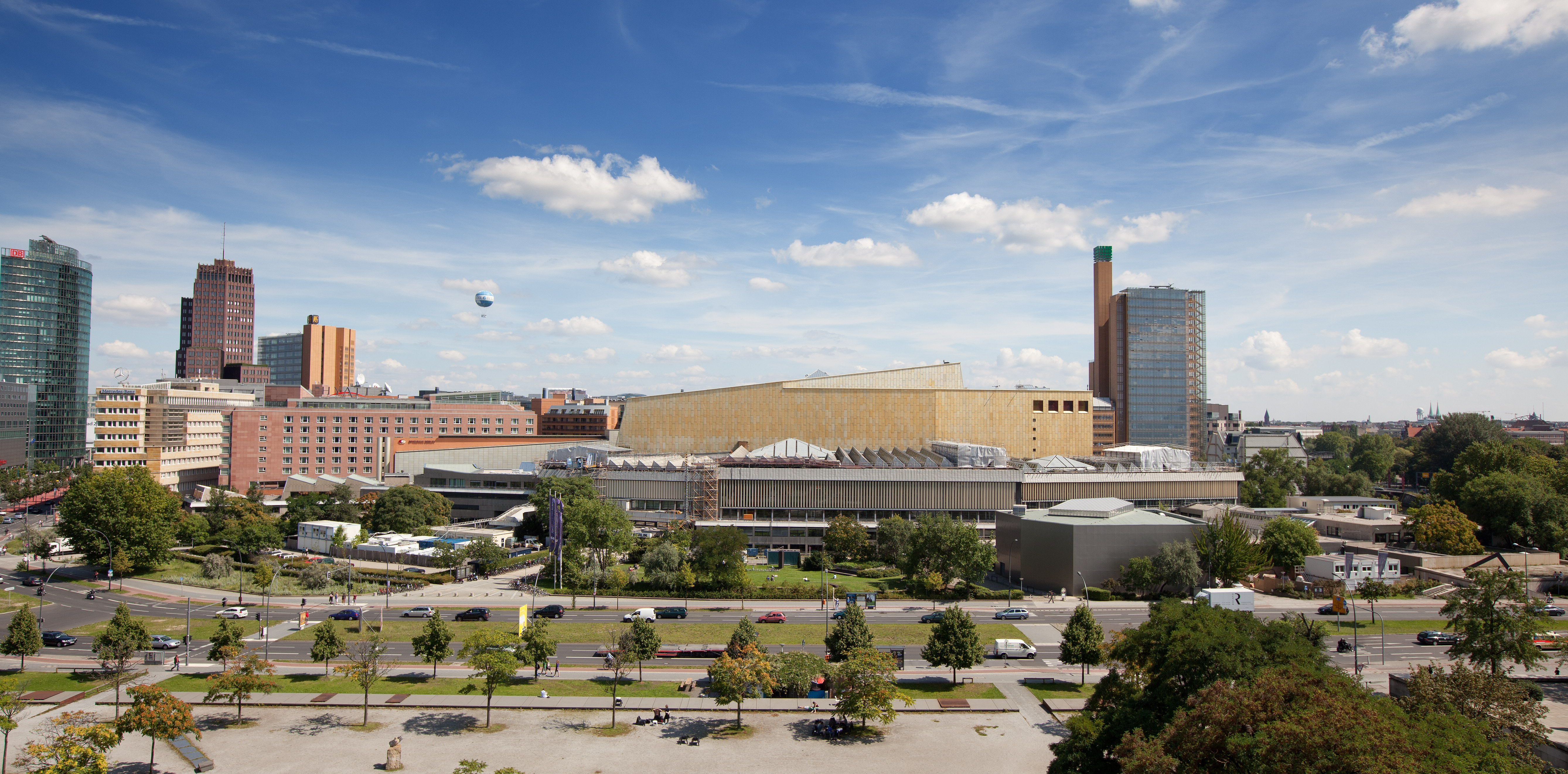 Staatsbibliothek zu Berlin (Haus Potsdamer Strasse), visible in the background: parts of the Sony Center, the Kollhoff Tower (to the left), and the Debis Tower (to the right).